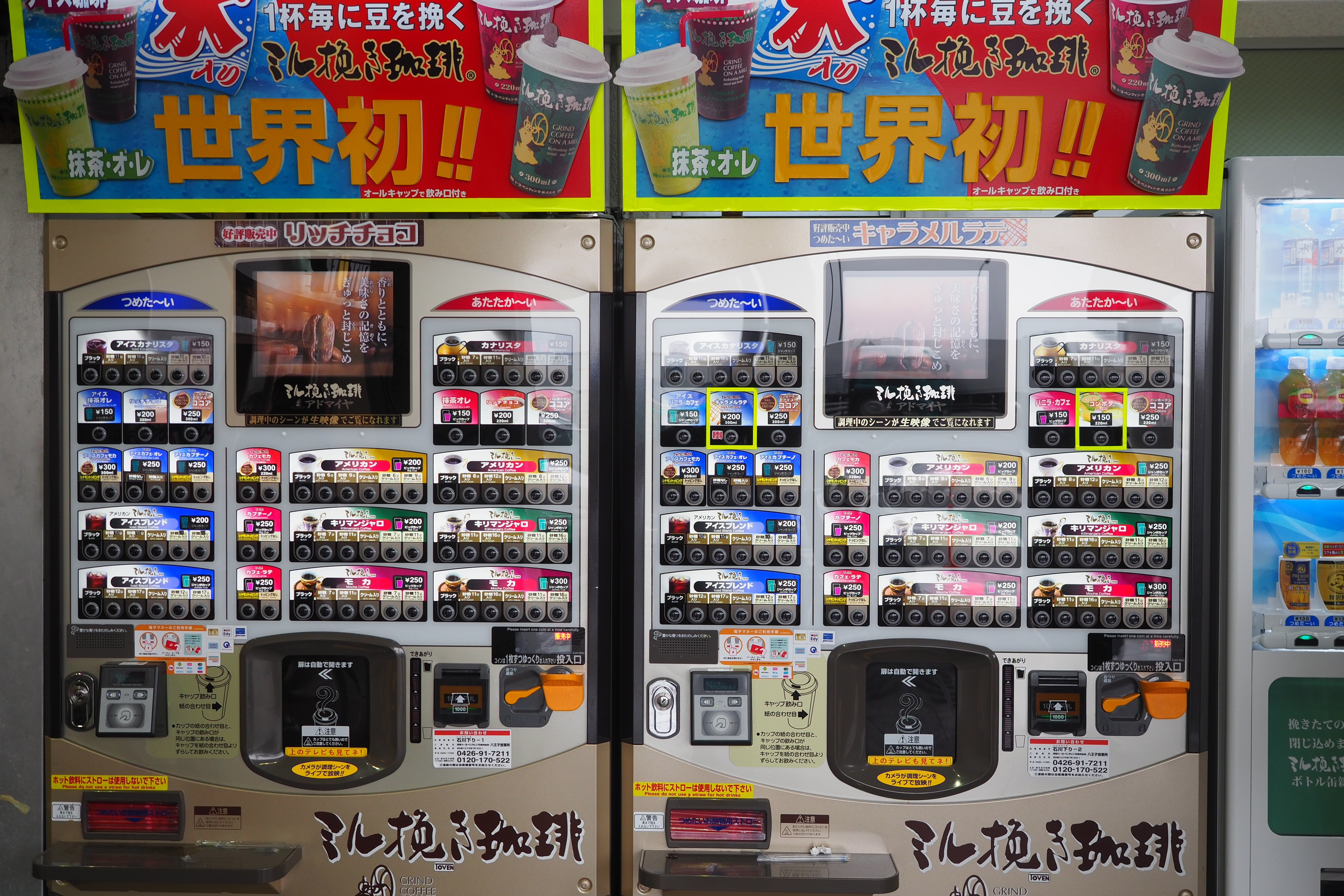 Japan Freeway